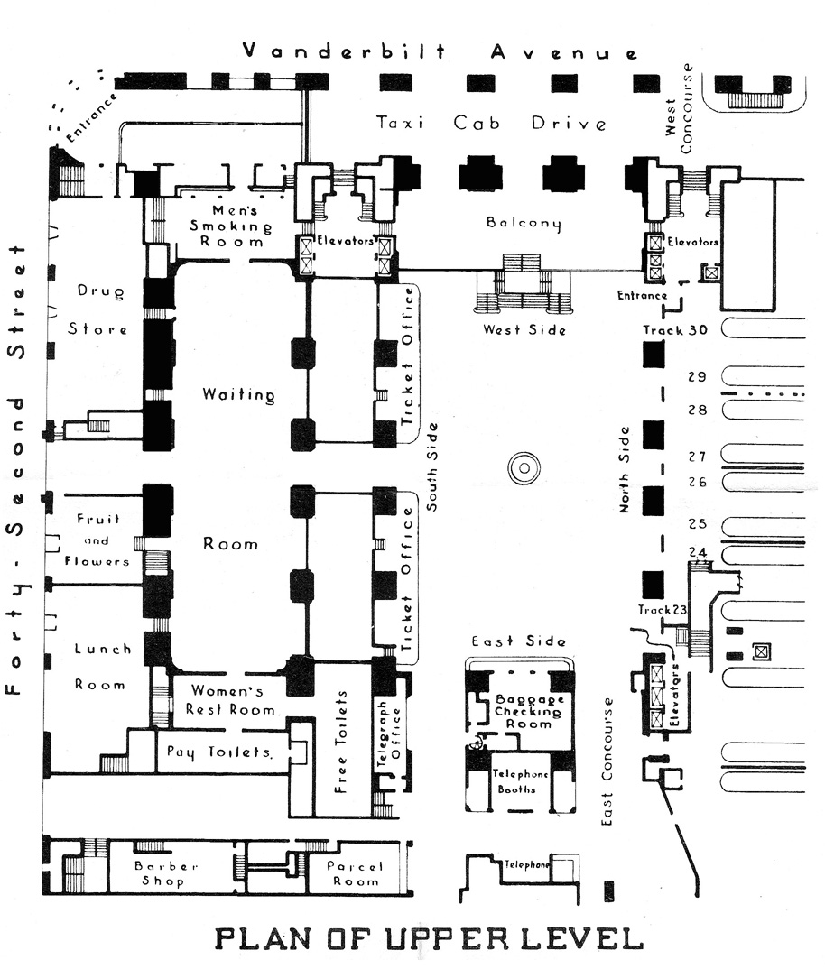 Diagram of the Upper level of Grand Central Terminal in New York City in 1939.